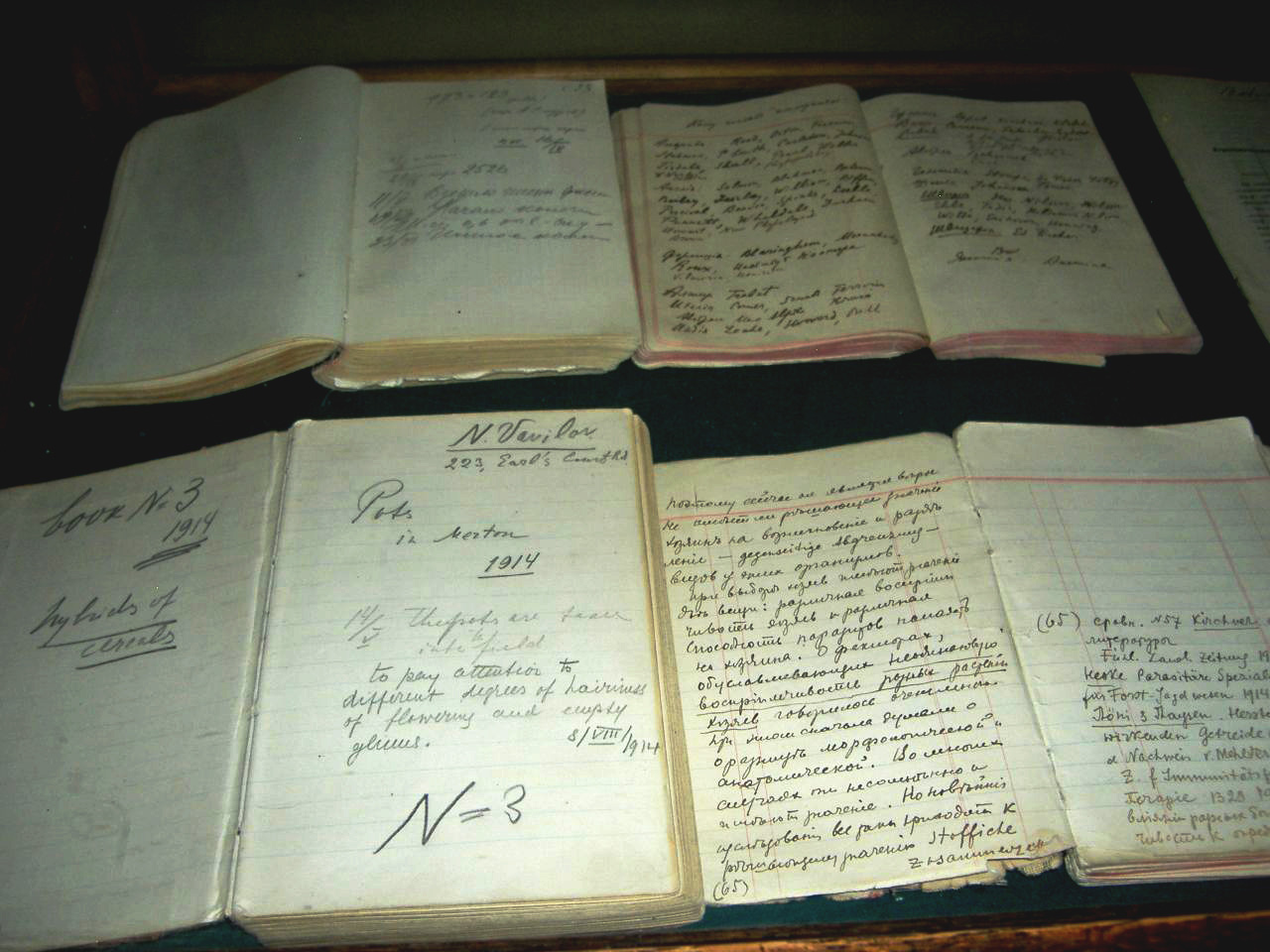 Cannot be handled, but would have liked to investigate what he was writing about when he mentioned degrees of hairiness in the book on the bottom left.